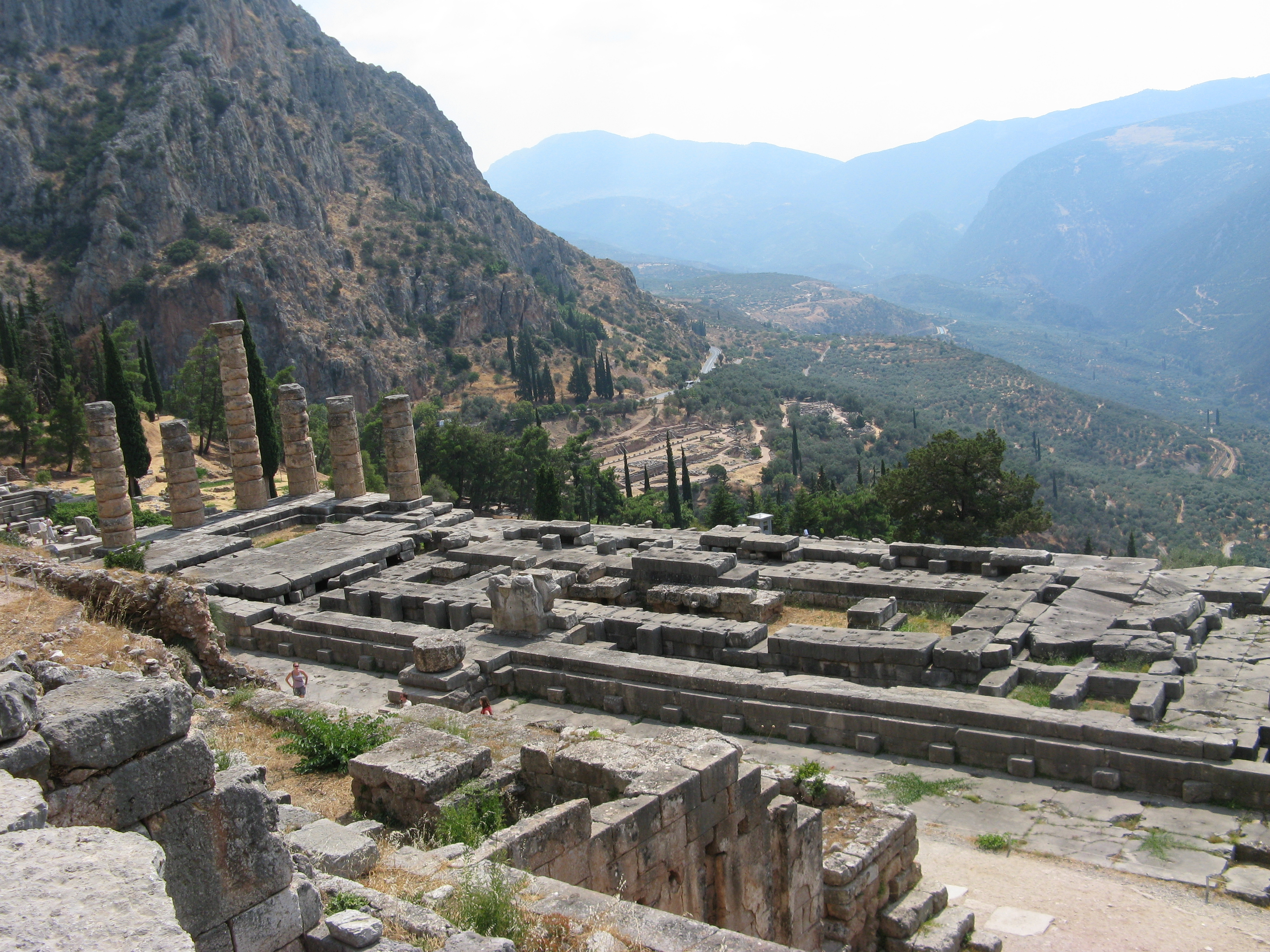 Delphi (Apollo Temple)